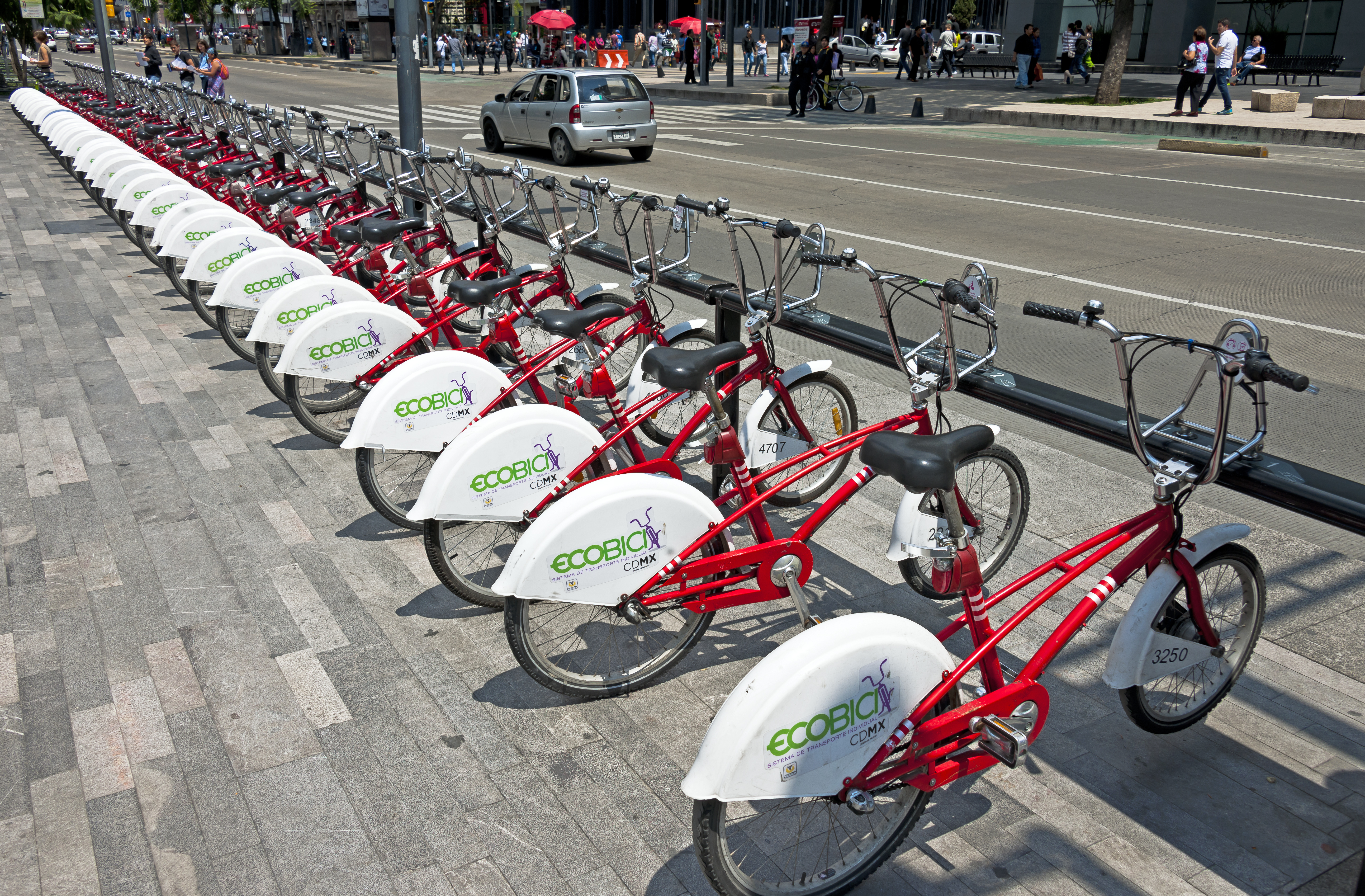 Rental bicycles racked along Avenida Juárez at the Alameda Central in Mexico City.